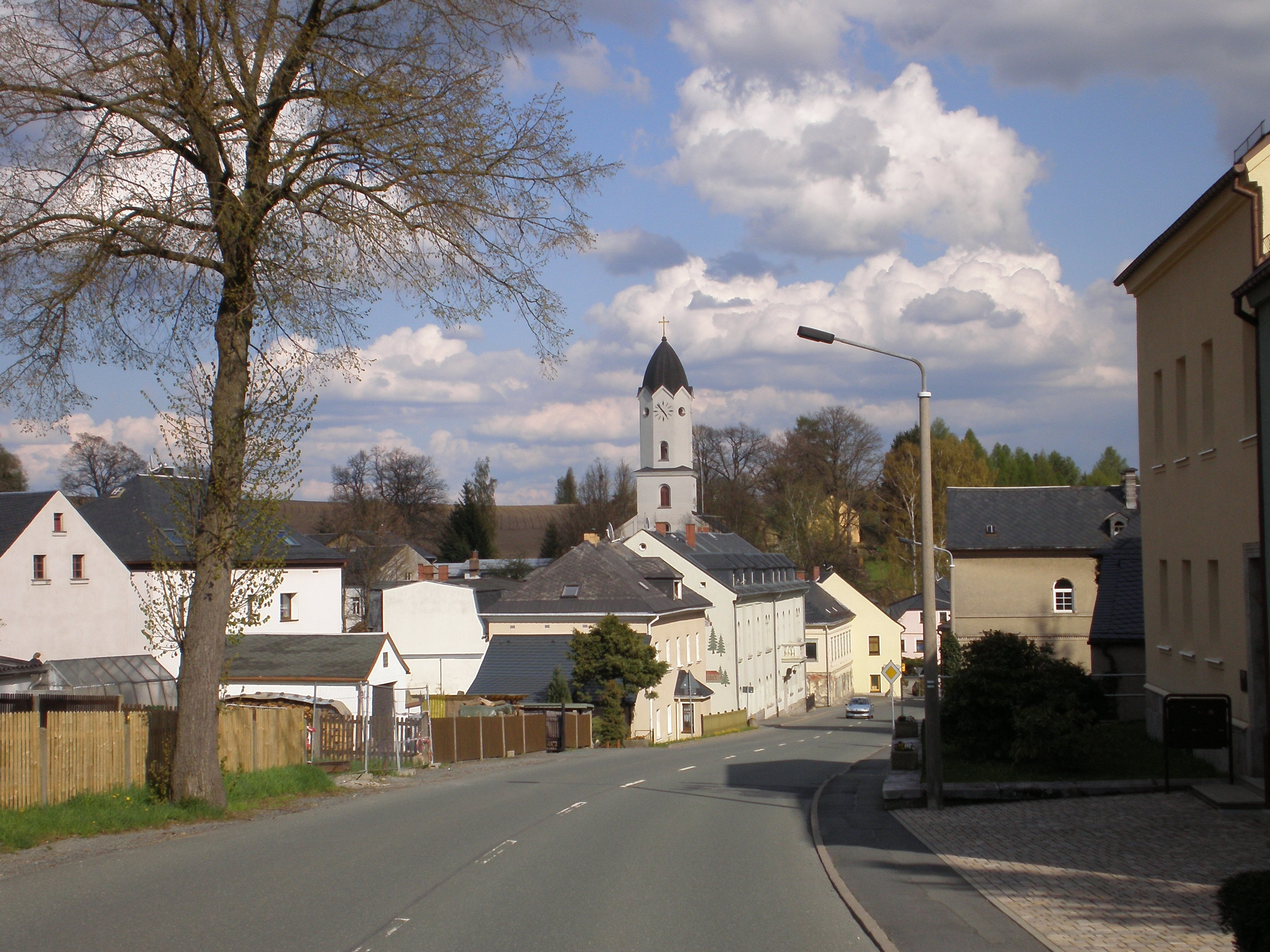 City of Bad Brambach, Saxony, Germany